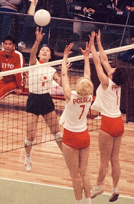 Yuriko Handa of Japan spikes the ball during the Women's Volleyball match between Japan and Poland during the Tokyo Olympics at Komazawa Gymnasium on October 18, 1964 in Tokyo, Japan.